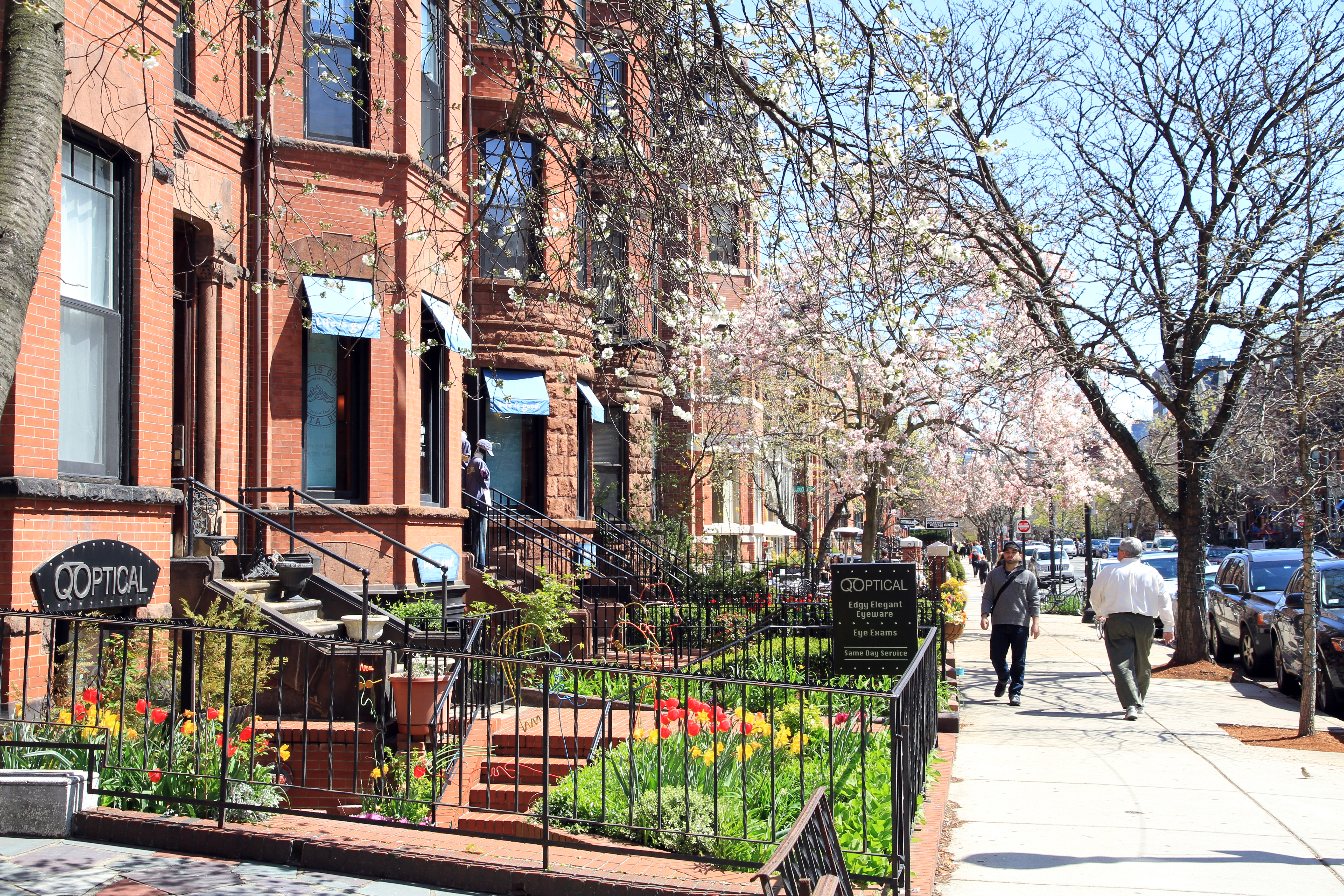 Newbury Street